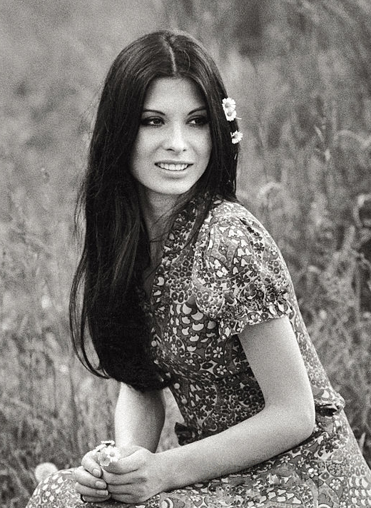 Portrait of the Italian singer and actress Rosanna Fratello (Elda Rosanna Fratello) sitting in a field with a flower among her hair. Milan, 1972